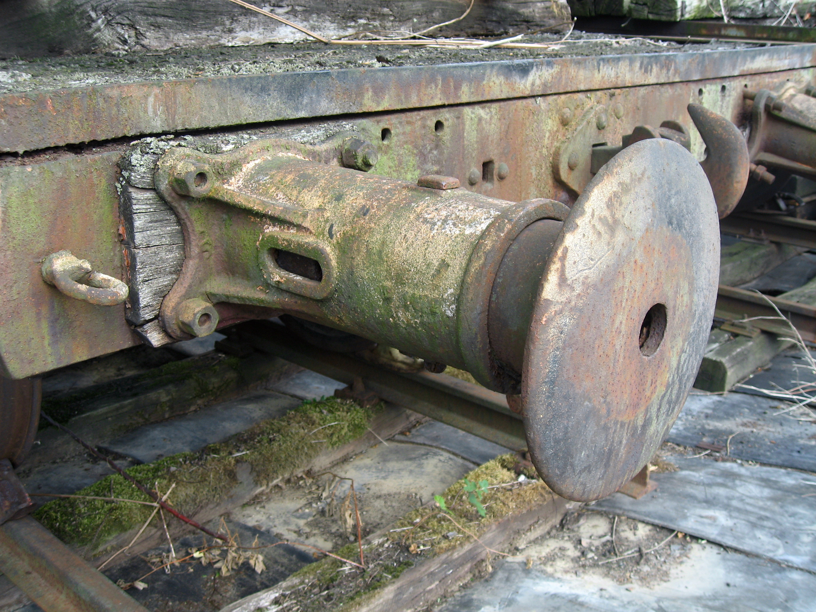 coal-mine "Zollern II/IV" in Dortmund